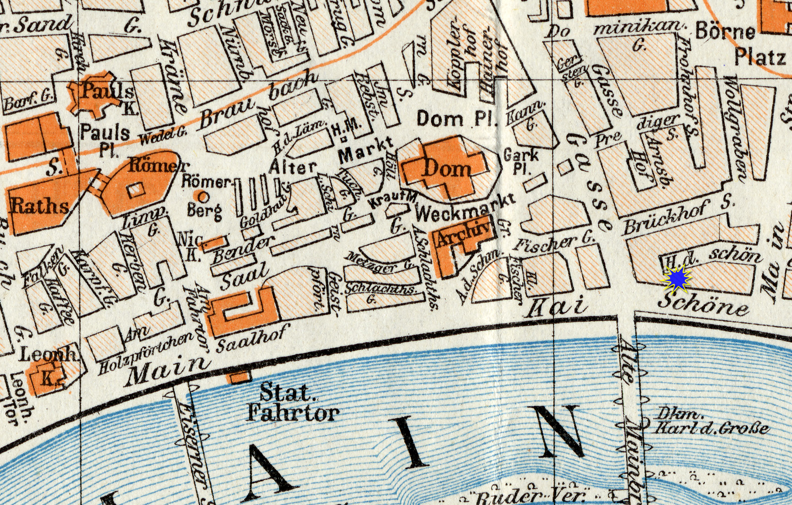 Frankfurt on the Main: Position of the Schopenhauerhaus (Schopenhauer House) as seen on a map of the old town